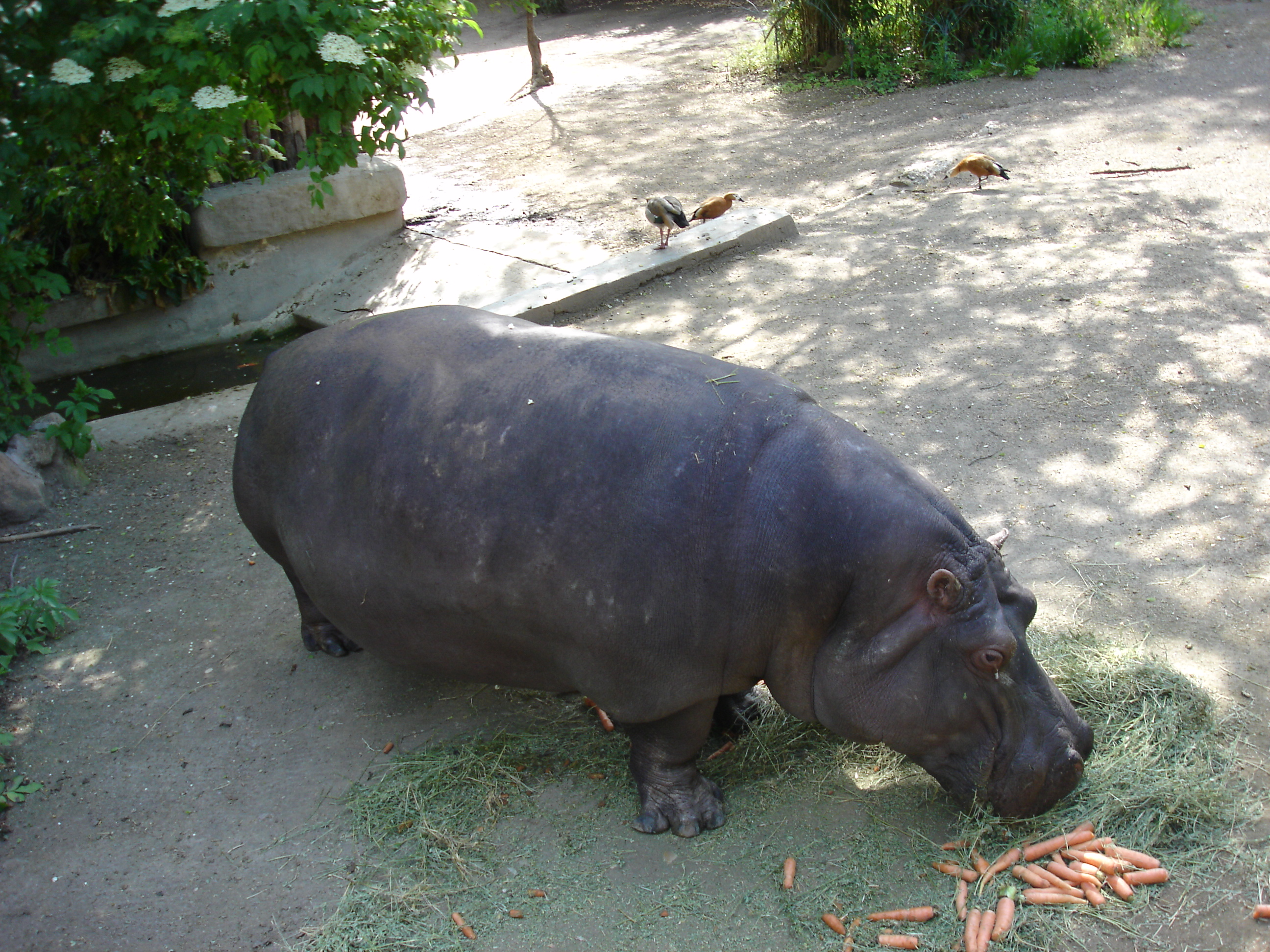 This is a Hippopotamus standing on land at the zoo of Rome. In Swedish it's called Flodhäst. Scientific name is hippopotamus amphibius. Image taken by Martin Olsson, 3 May 2005 (mnemo| on Wikipedia and Commons, ). Published at Wikimedia Commons under the GFDL license.